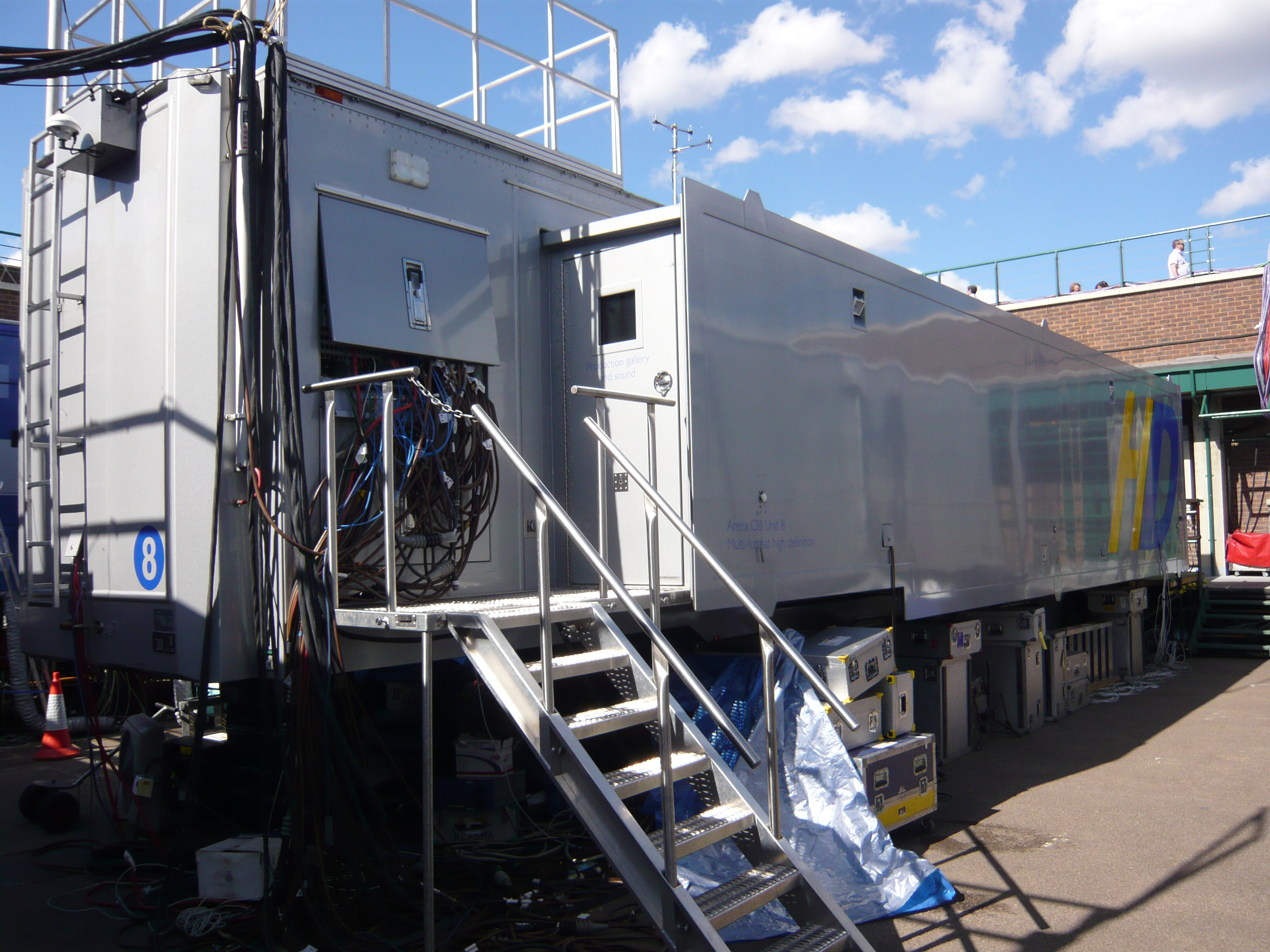 Arena Television's OB8 covering Wimbledon Tennis Champtionships